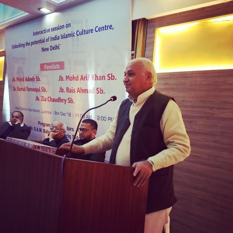 Arif Mohammad Khan former Cabinet Minister India .